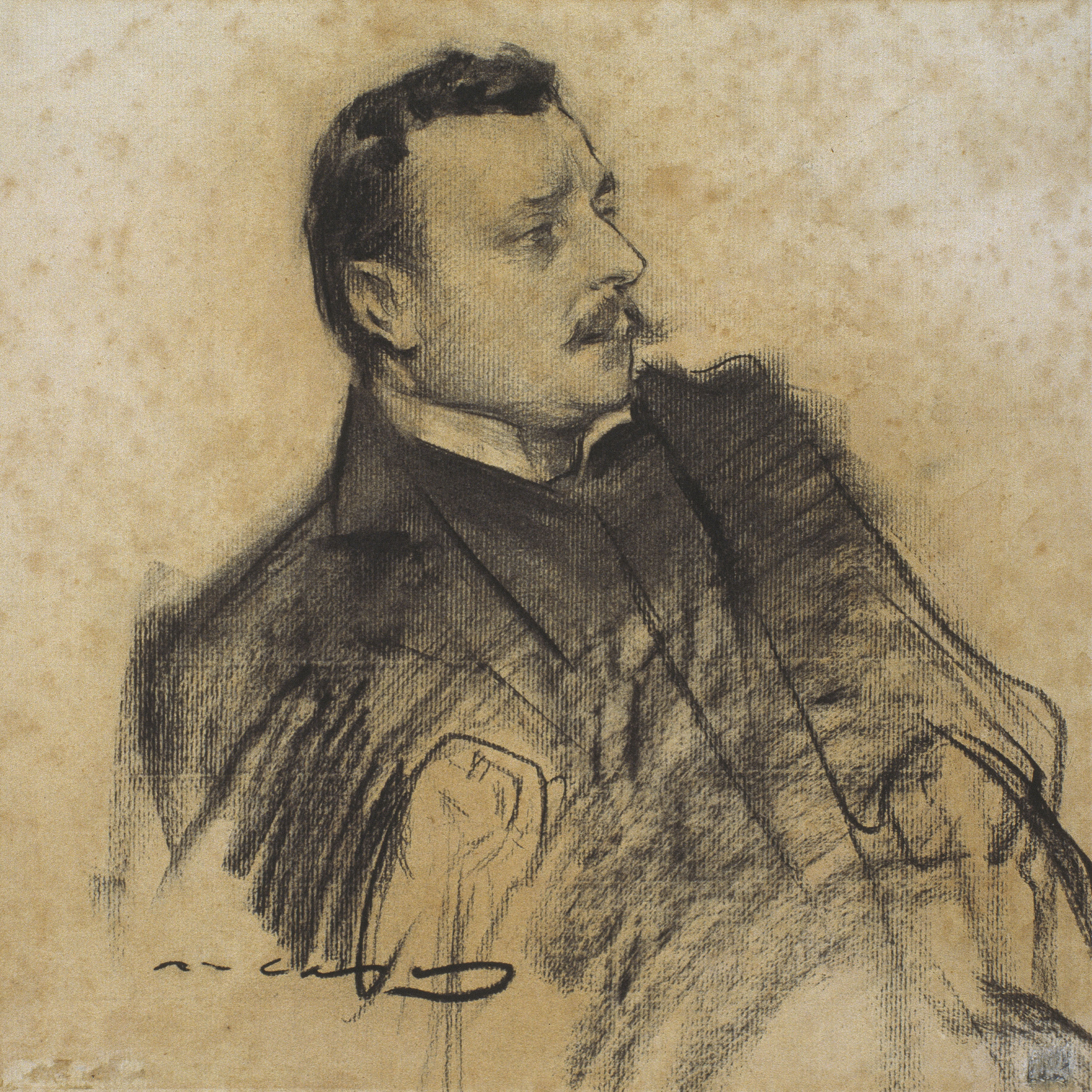 Portrait by Ramon Casas conserved at MNAC in Barcelona.